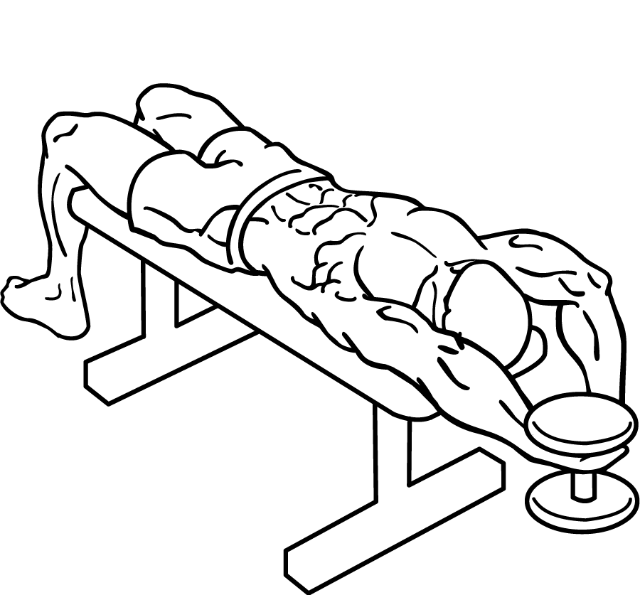 an exercise of upper back